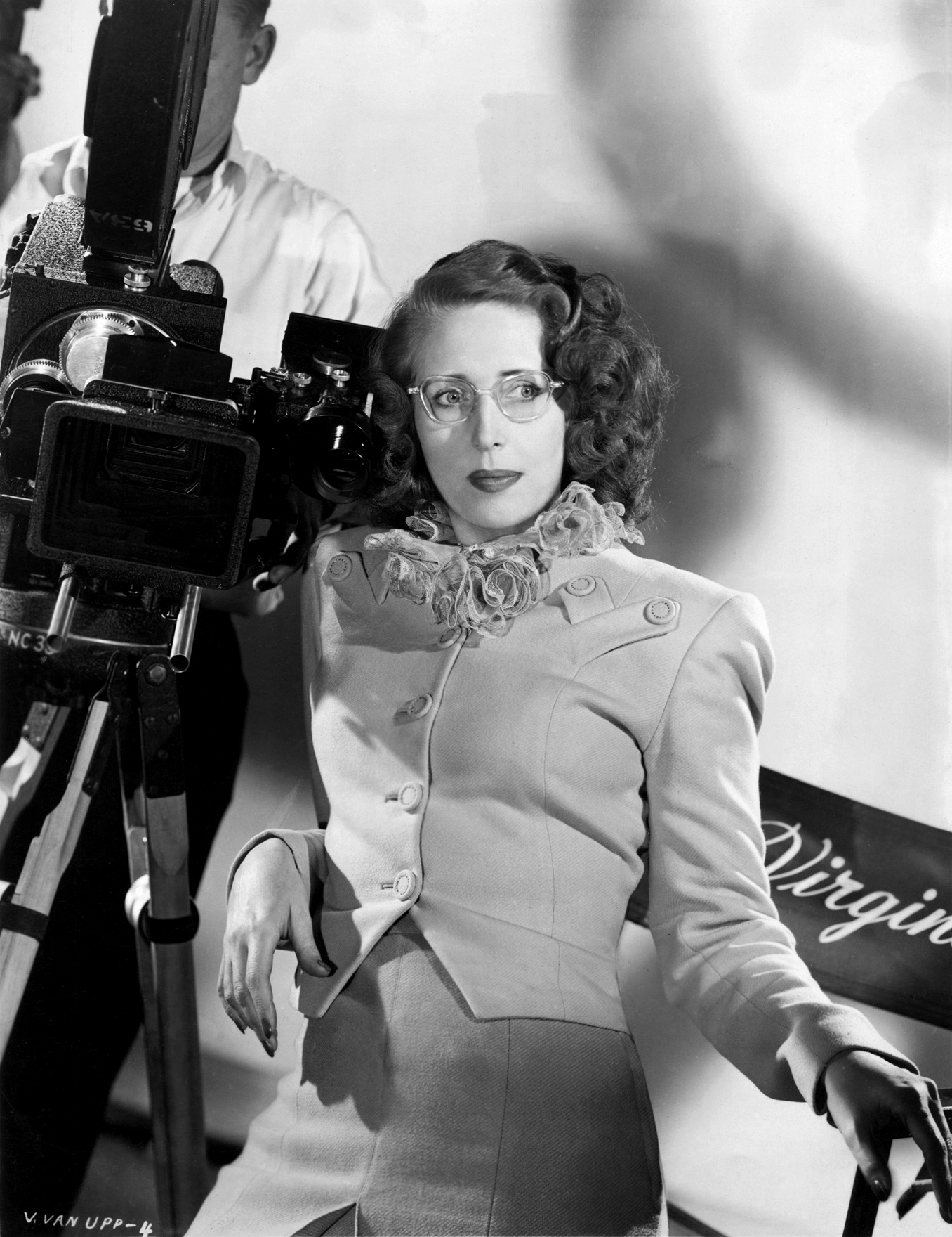 Photograph of Columbia Pictures producer Virginia Van Upp